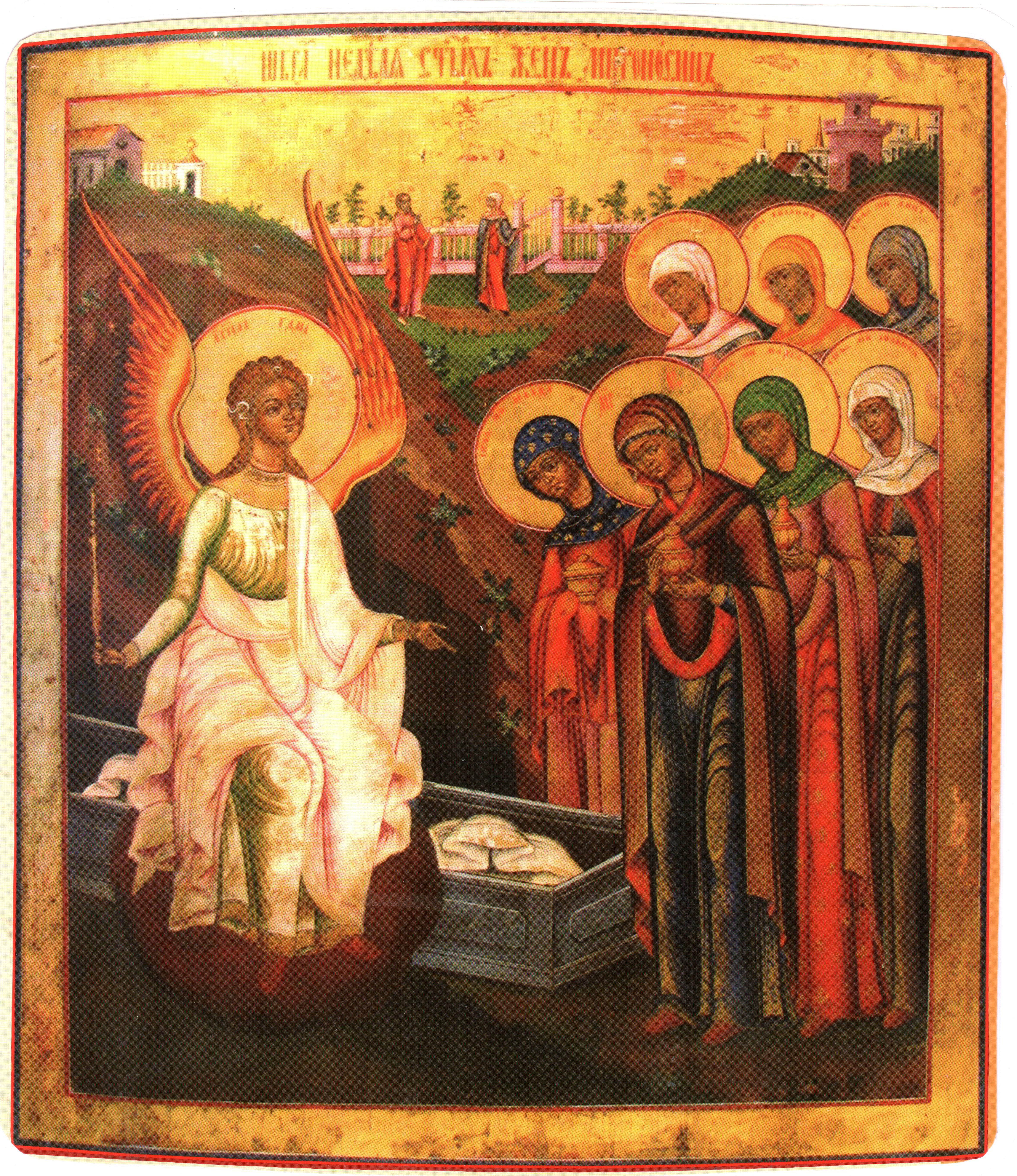 7 Women at the grave. Russian Orthodox icon.